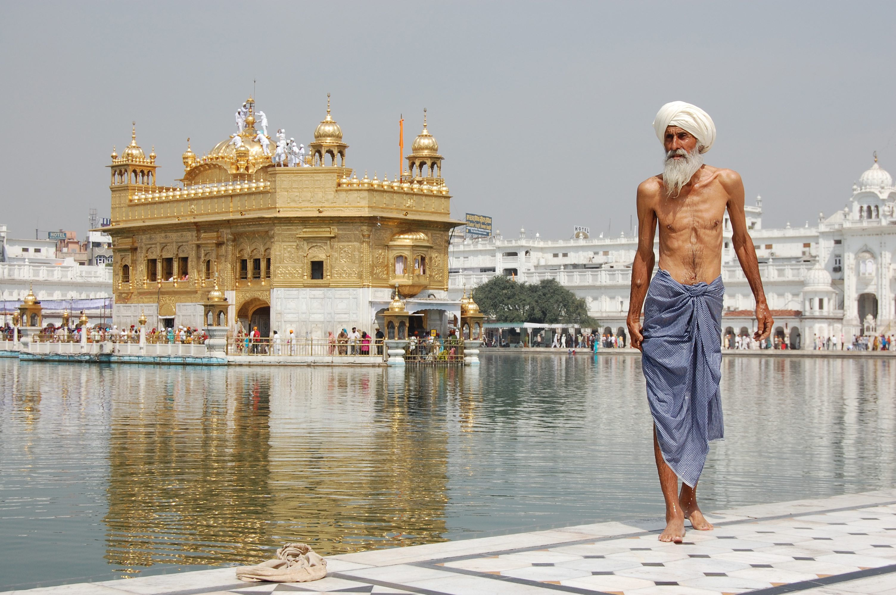 Sikh pilgrim at the Harmandir Sahib (Golden Temple) in Amritsar, India. The man has just had a ritual bath.